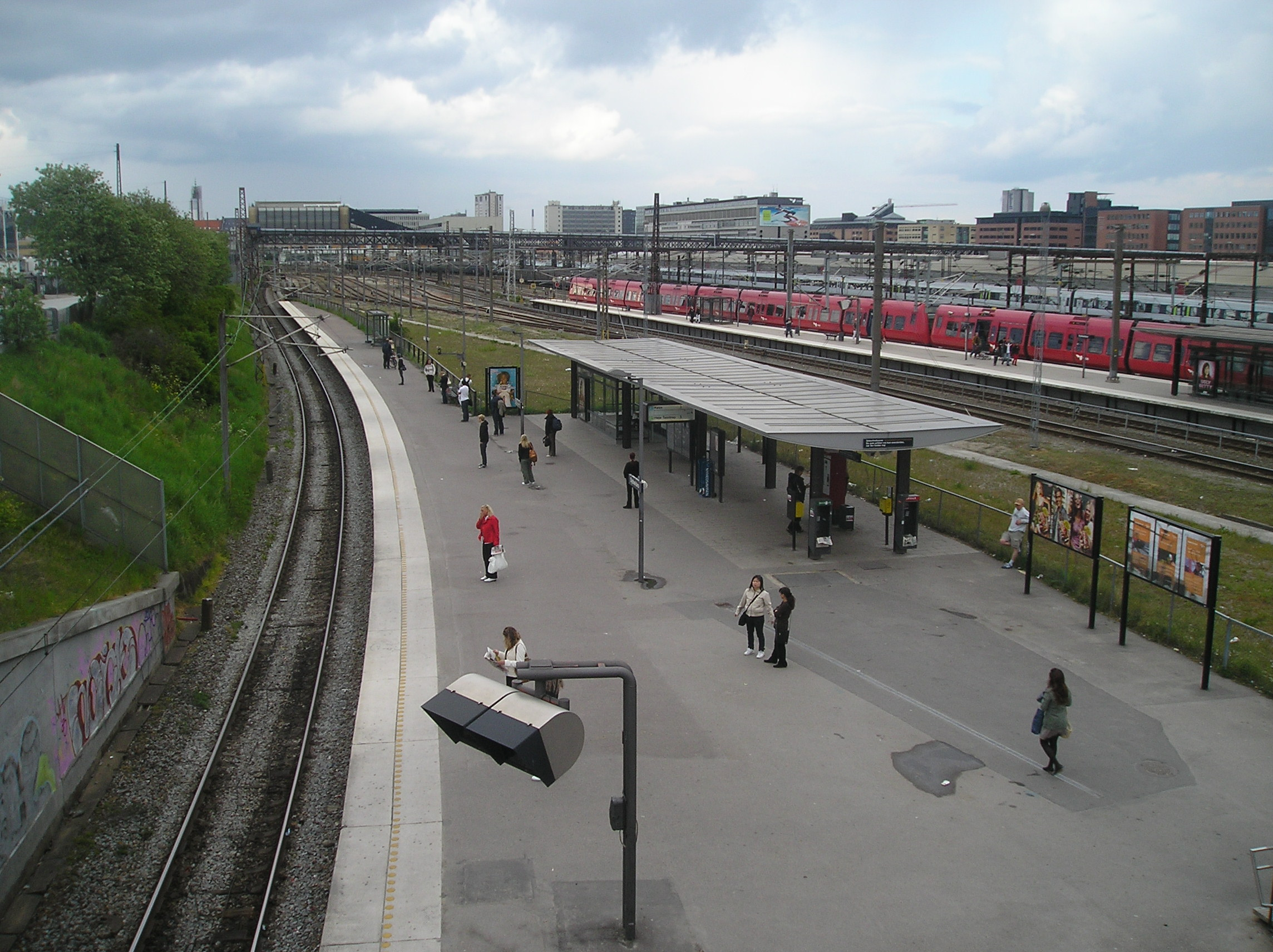 Copenhagen S-train station Dybbølsbro.